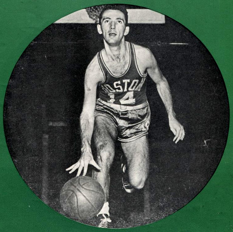 Professional basketball player Bob Cousy